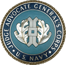 Judge Advocate General Logo